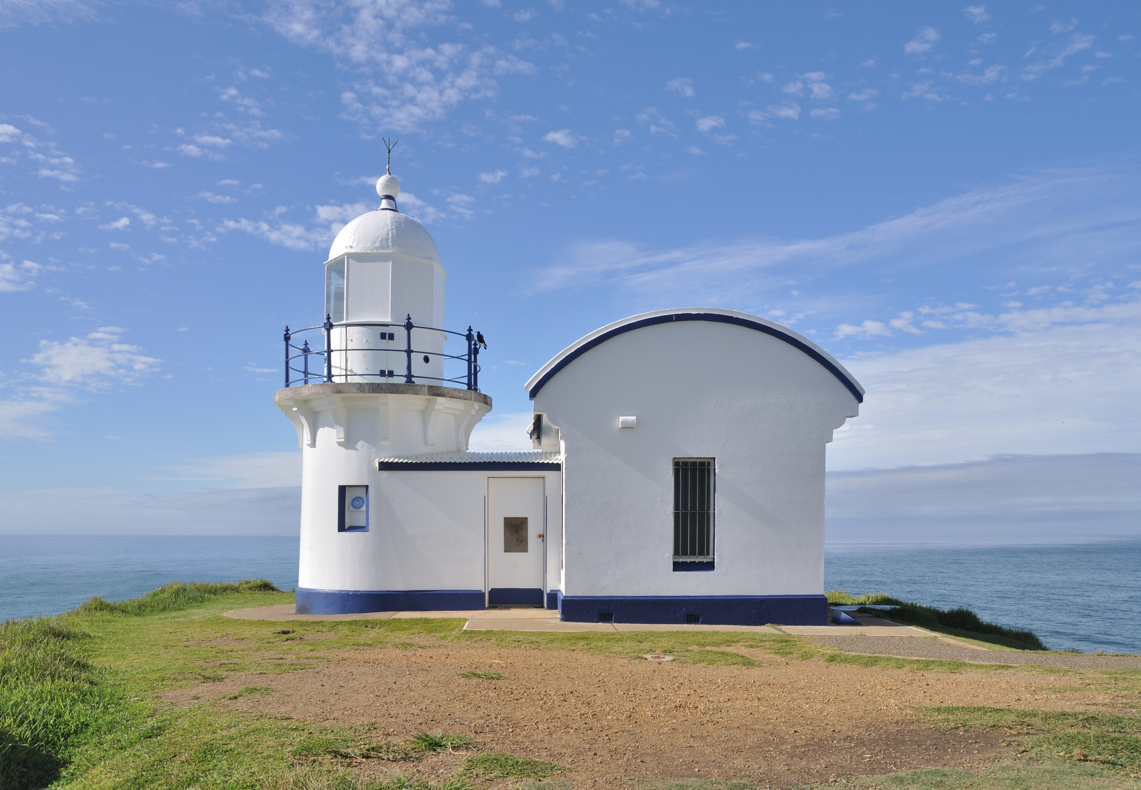 Tacking Point Lighthouse, Port Macquarie, Australia